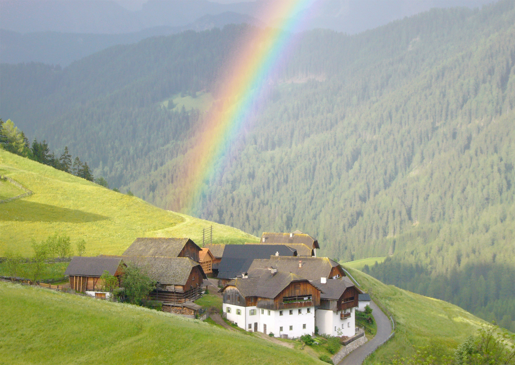 San Martin de Tor South Tyrol, Fraktion Lungiarü: Seres hamlet. 1.605m/ 5,266 ft above sea level (Farmhouse Type: Paarhof)